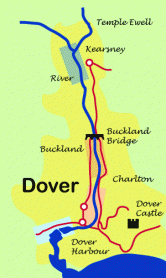 The River Dour and its environs